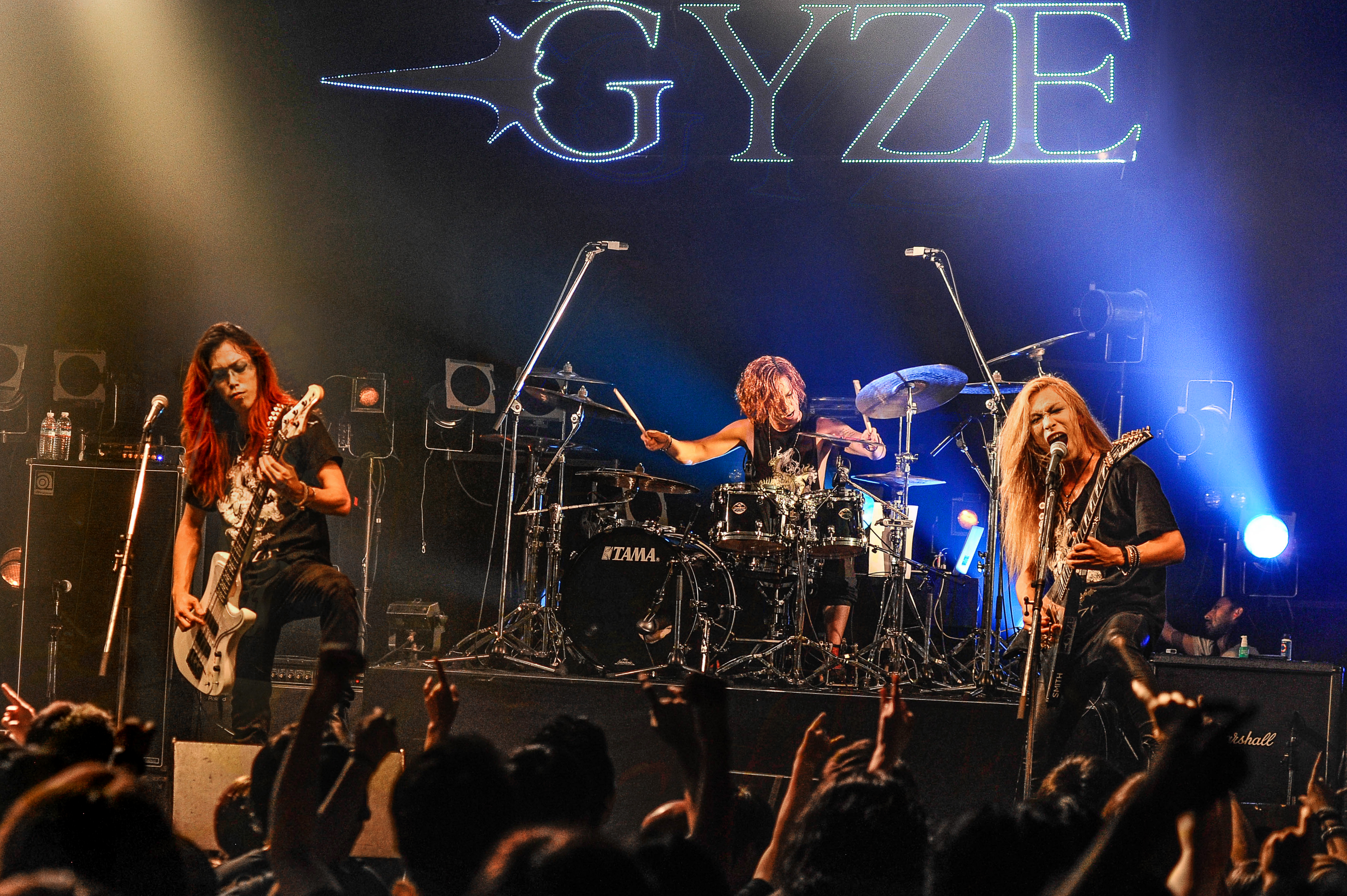 GYZE performing in Tokyo on July 25th, 2017 Left to right: Aruta, Shuji, Ryoji